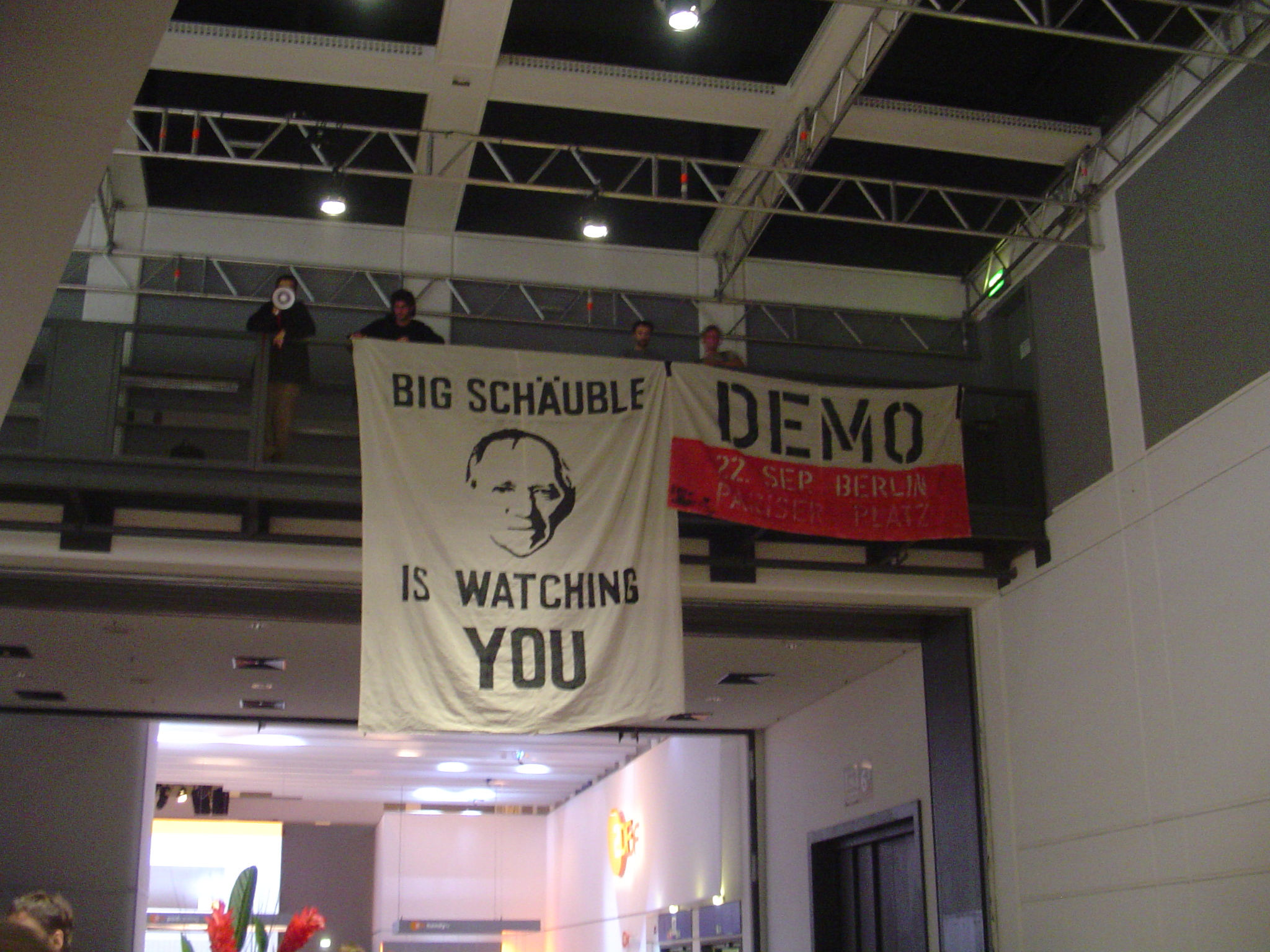 Go-in at IFA 2007